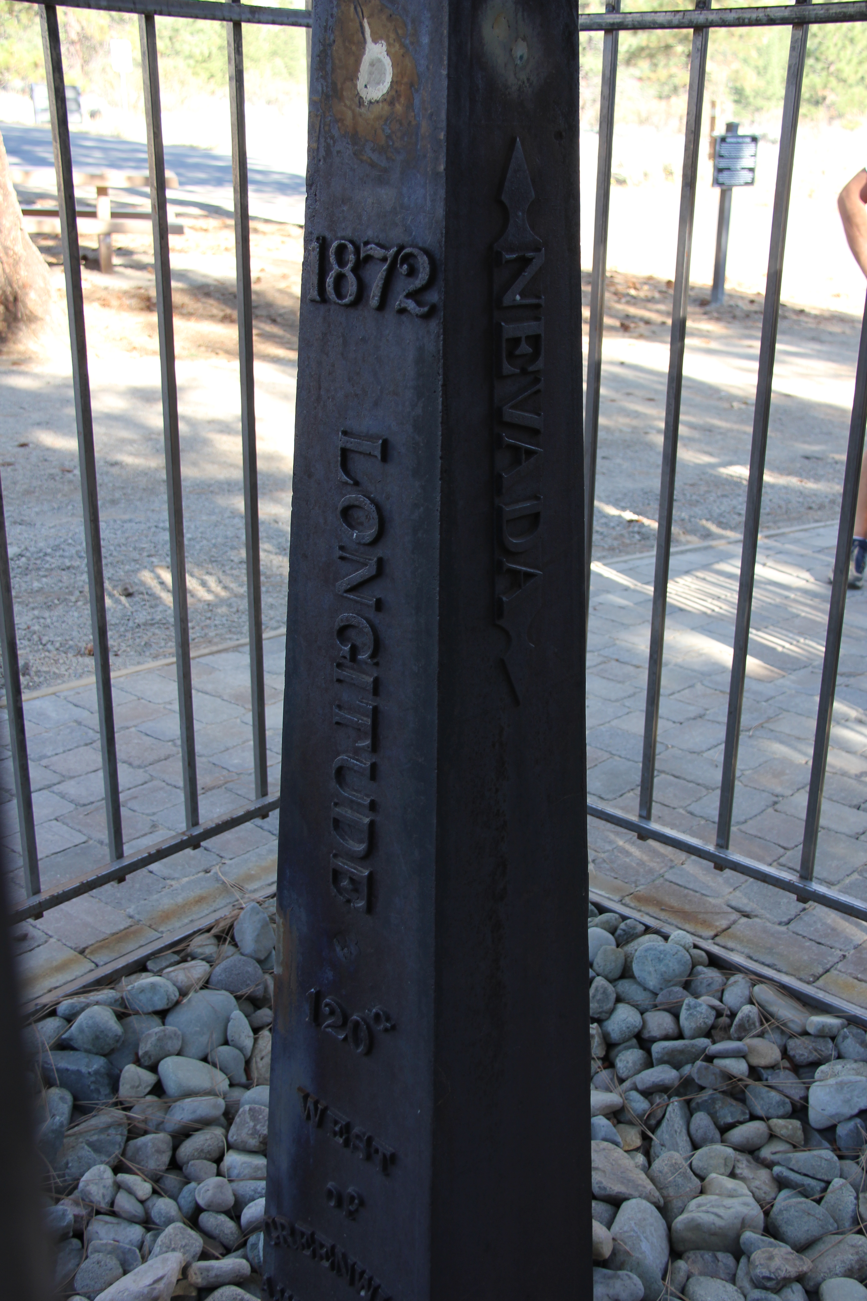 1872 California-Nevada State Boundary Marker, Northwest of Verdi on the California/Nevada border Verdi